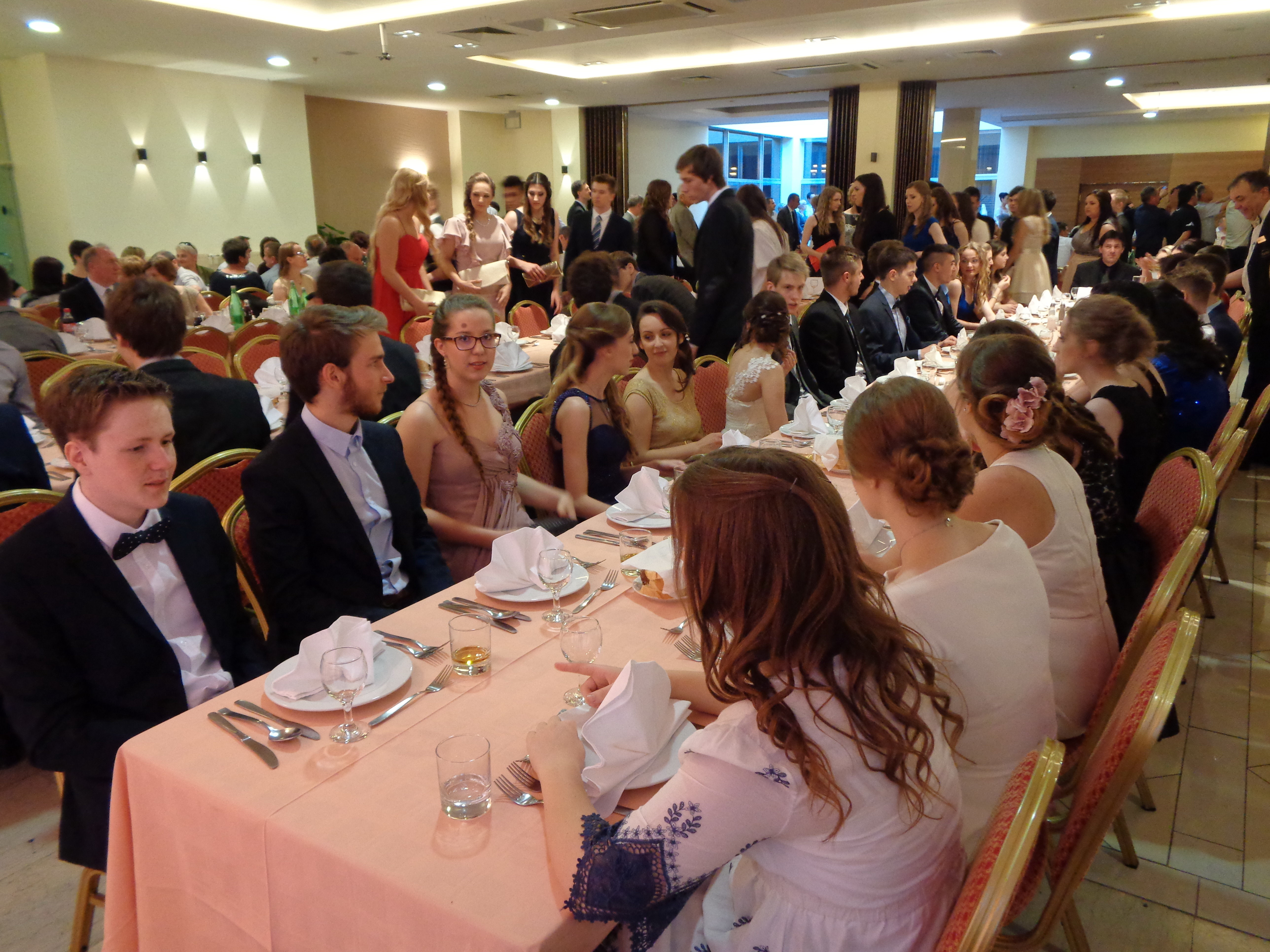 "Turist" Hotel in Varaždin, Croatia - restaurant full of guests